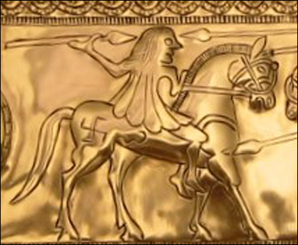 part of the Reproduction of Bronze belt plaque from Vace,Slovenia,Yugoslavia,400 BC, Hallstatt culture (Illyrian/Celt warriors),Identical to Illyrians, see "Early Roman Armies (Men-at-Arms) by Nicholas Sekunda and Richard Hook,1995,ISBN-10: 1855325136,Colour plates,The Venetic fighting system,Fifth century BC"